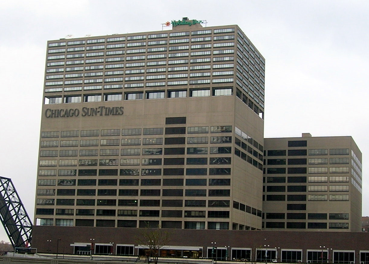 Chicago Sun-Times building in Chicago, IL - includes a Holiday Inn at the top